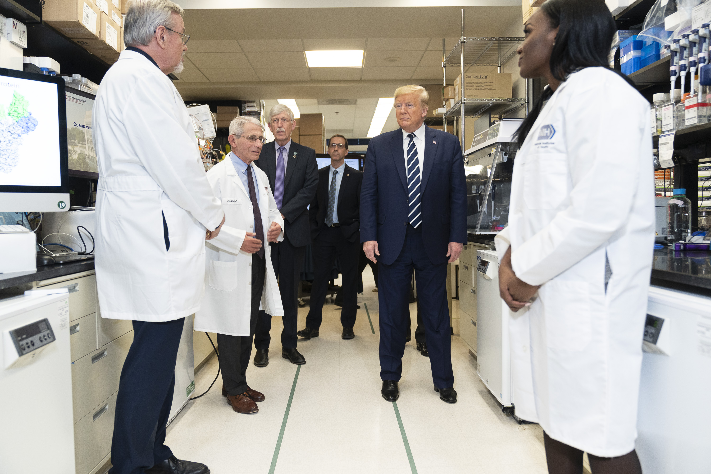 President Donald J. Trump tours the viral pathogenesis laboratory Tuesday, March 3, 2020, at the National Institutes of Health in Bethesda, Md. (Official White House Photo by Shealah Craighead)